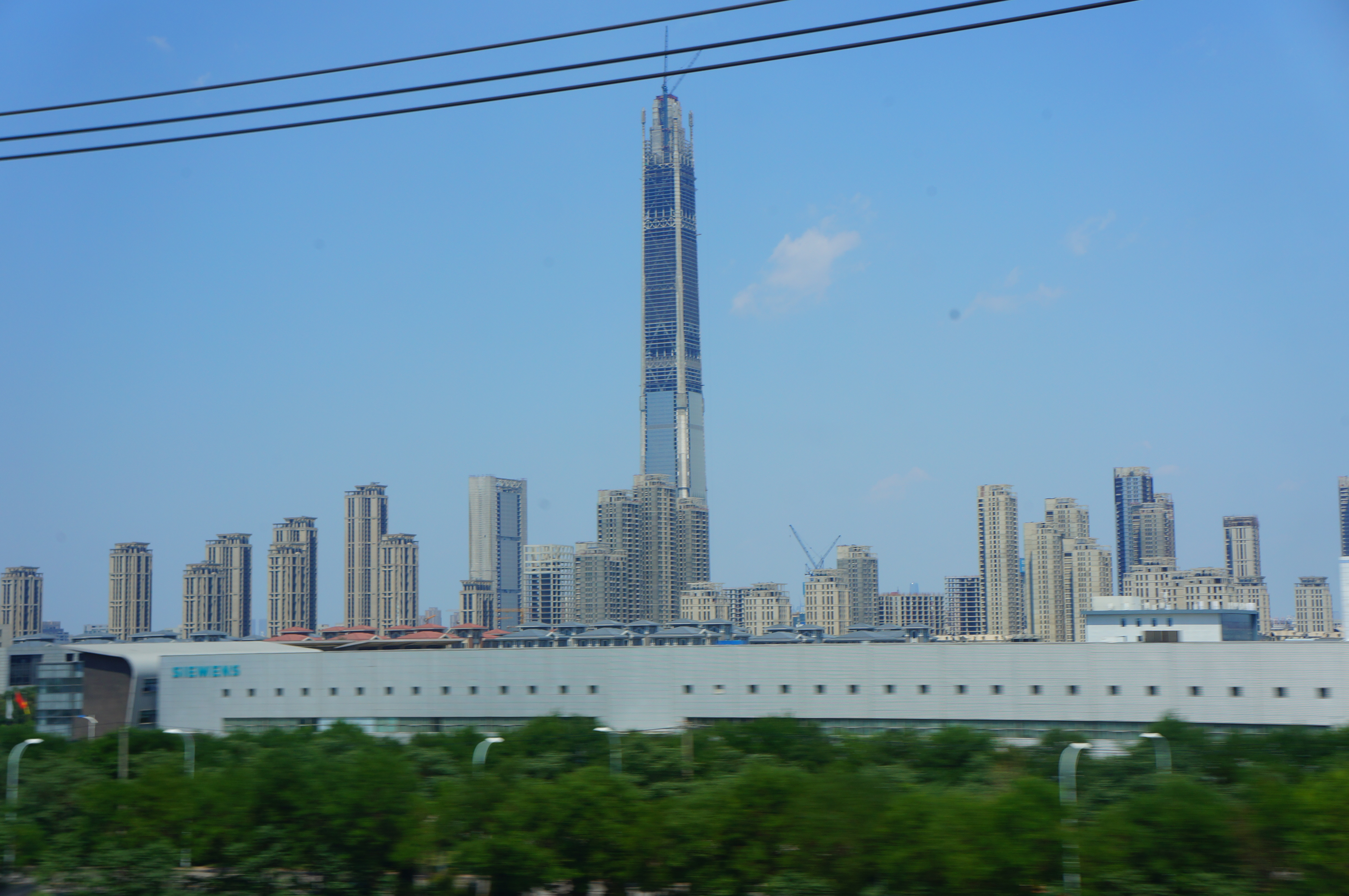 201606 Golden Finance 117 Tower under construction